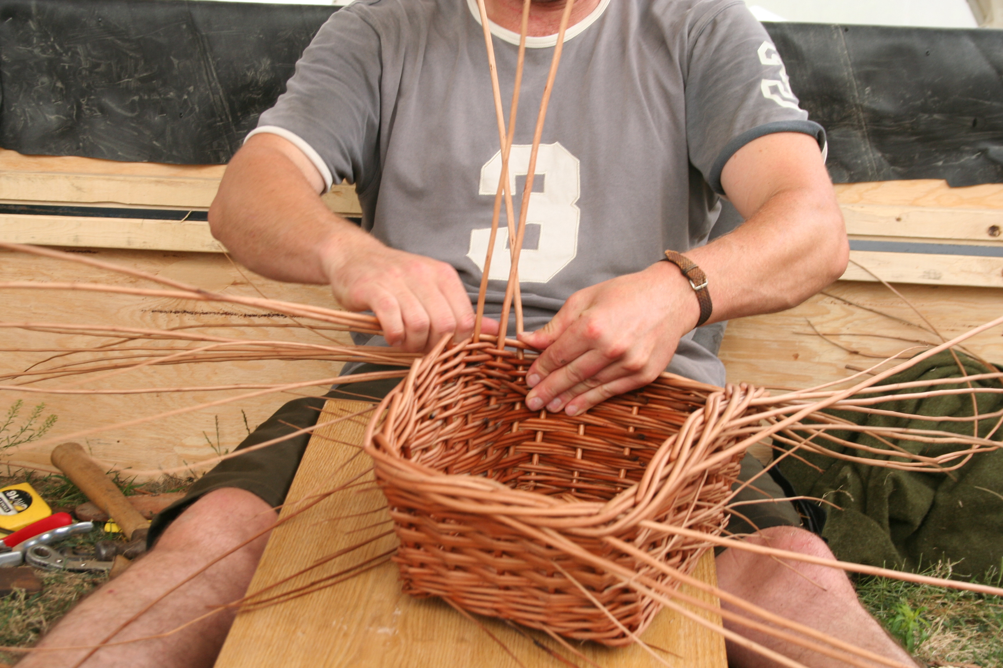 John Waller, Underwoodsman . . 2007 Smithsonian 41st Folklife Festival . . Day 2 . Roots of Virginia / Agriculture and Enterprise / Rural Crafts . National Mall . Washington DC . Wednesday afternoon, 27 June 2007 . Elvert Xavier Barnes Photography